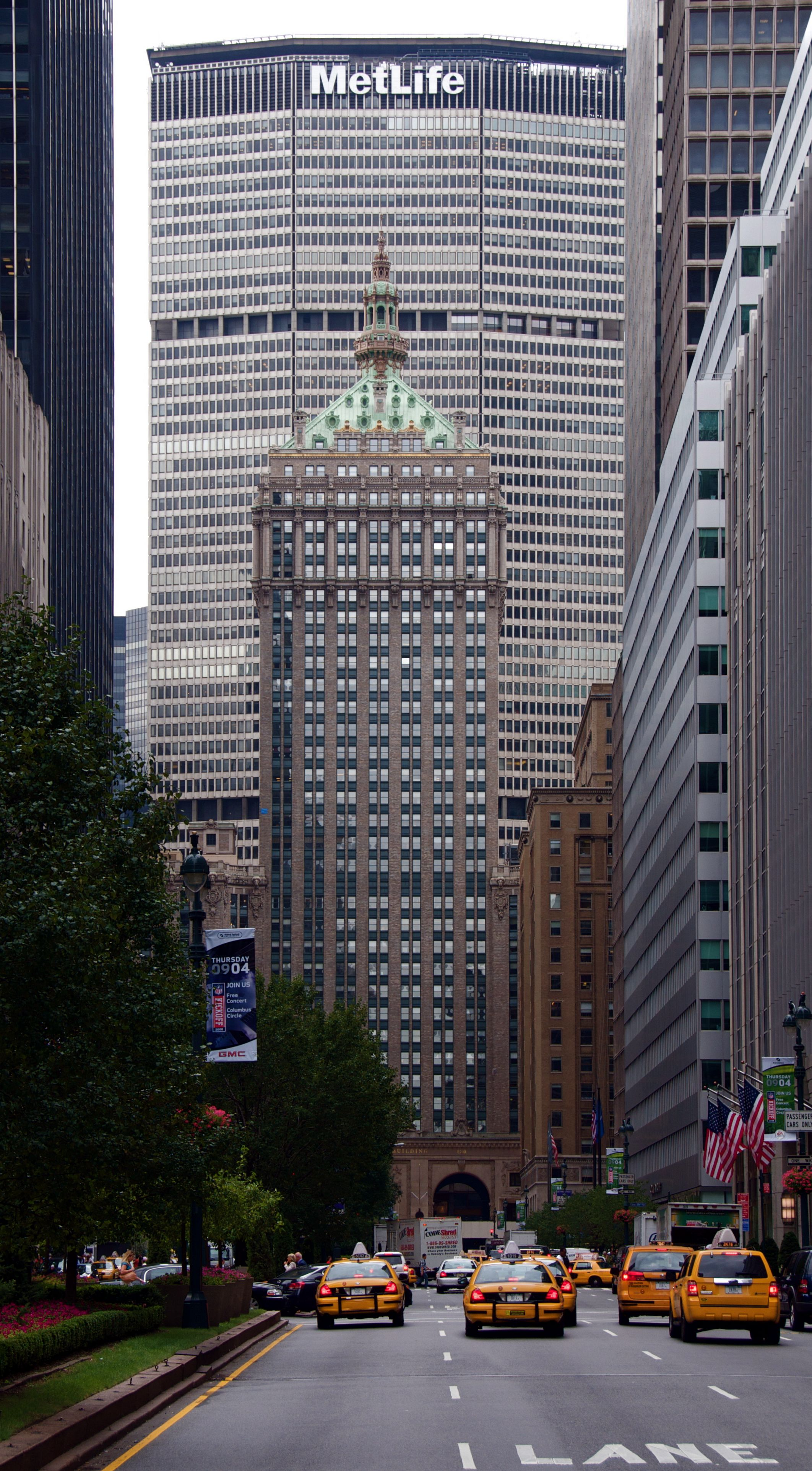 Park Avenue in New York directly heading for the Helmsley and Met Life Building.